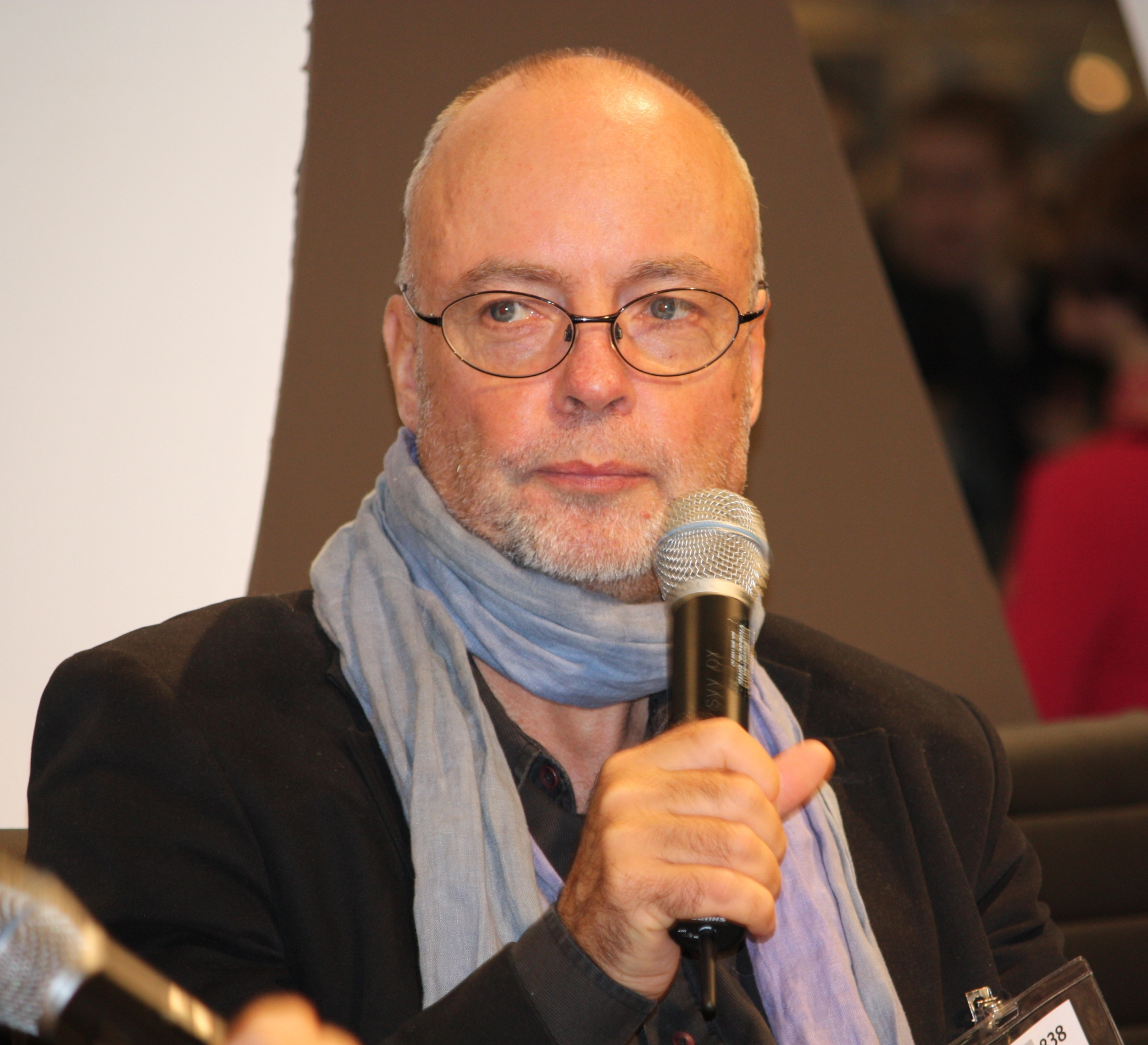 Finnish writer and journalist Erik Wahlström at the Helsinki Book Fair 2010